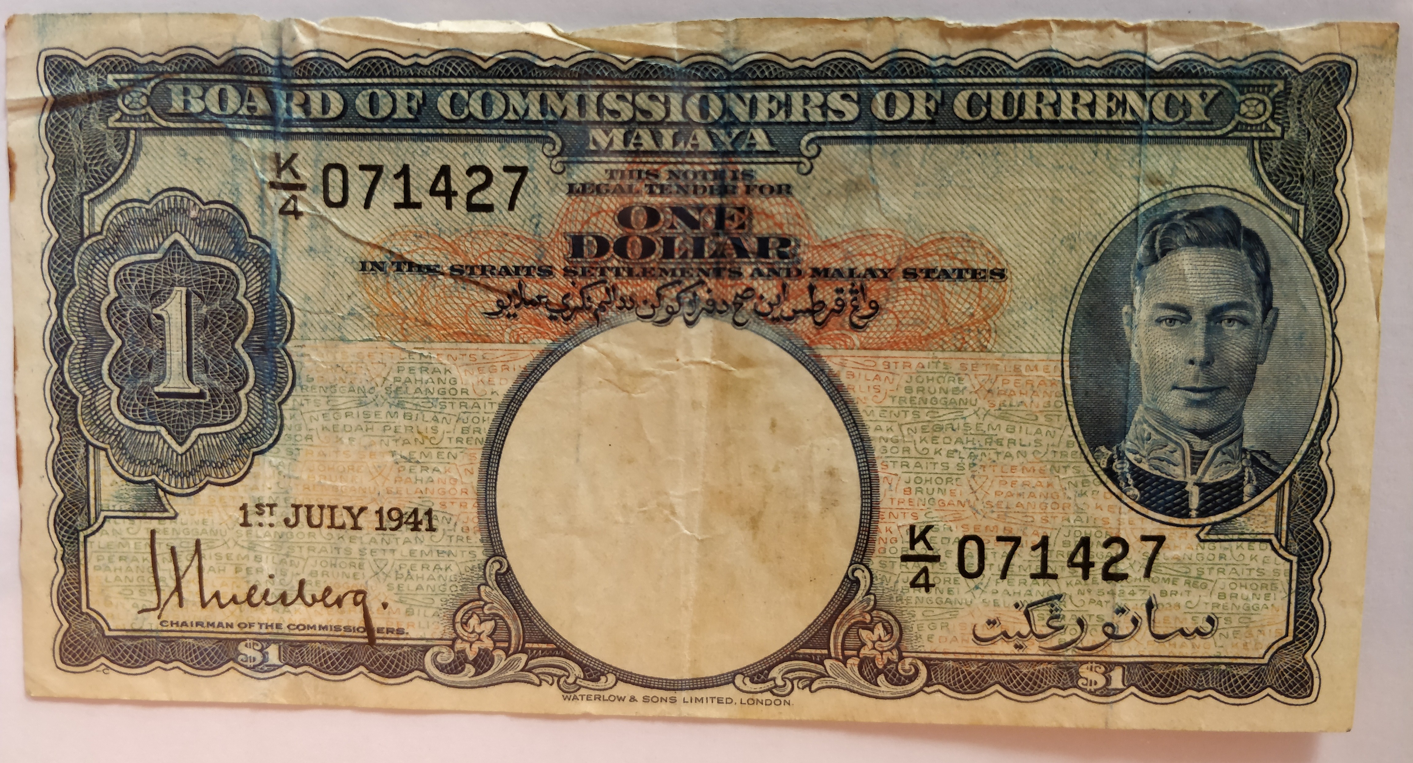 Malayan Dollar Note, $1, Obverse Blue Issued in 1945 but dated 1st July 1941